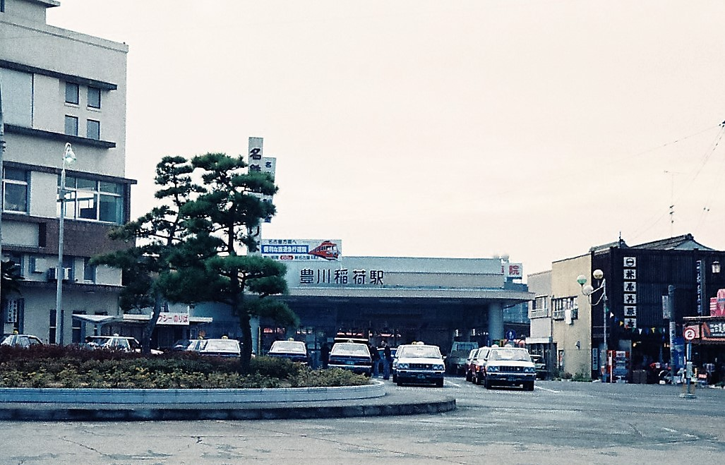 Toyokawa Inari Station